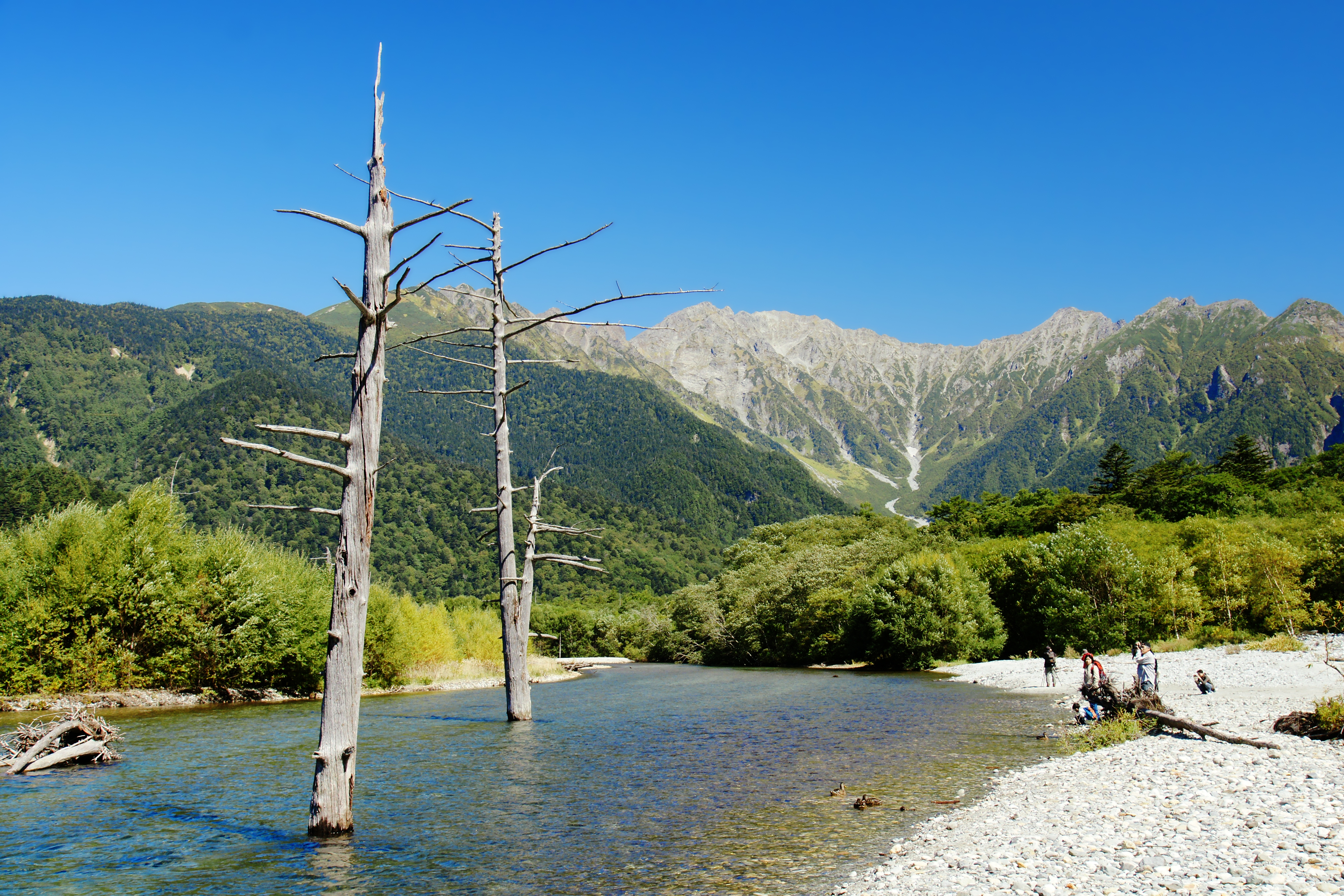 At Taisho-ike in Kamikochi, Matsumoto, Nagano prefecture, Japan